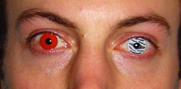 Cosmetic Contact Lenses